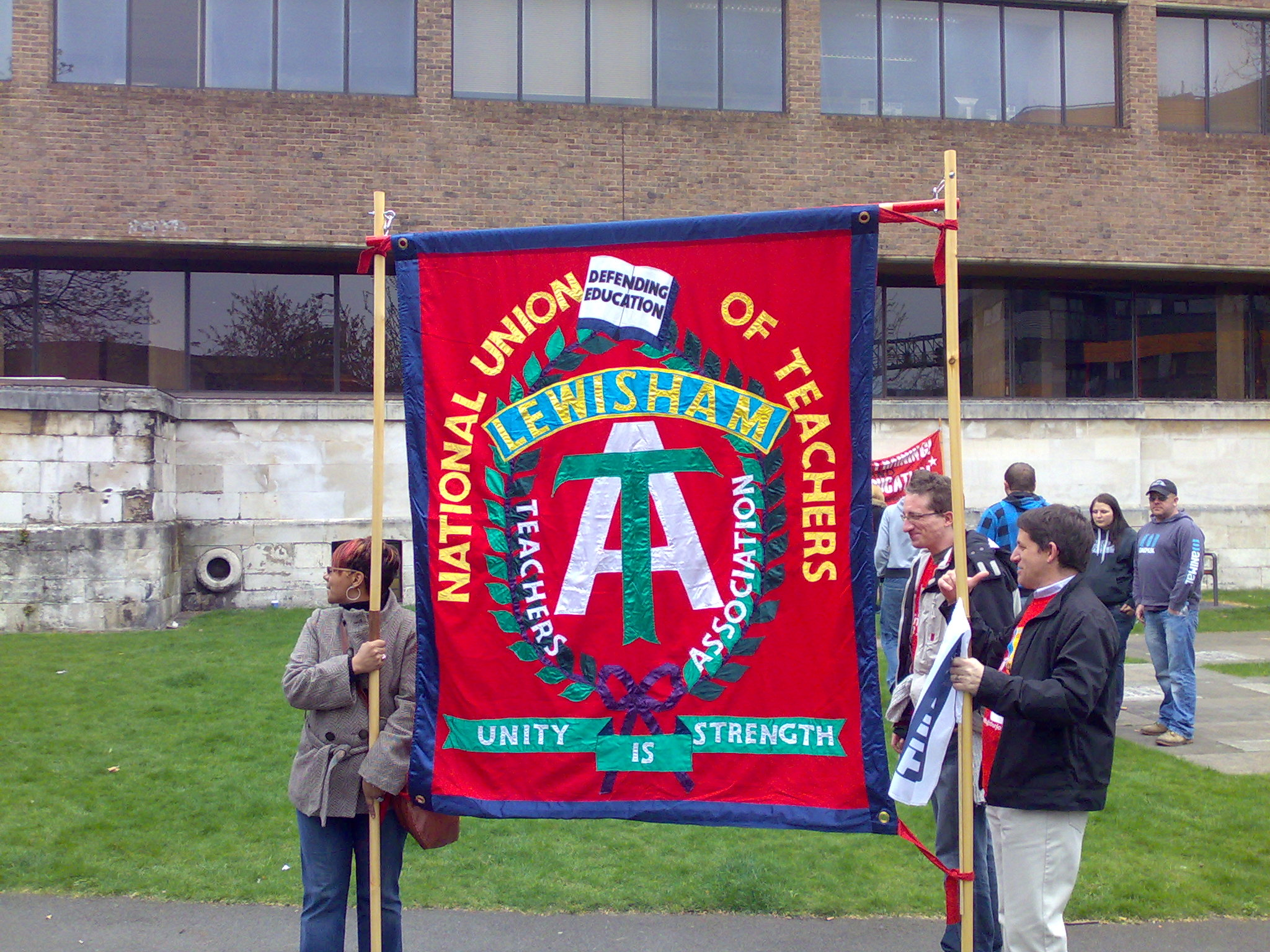 The National Union of Teachers, Lewisham chapter displays their banner. Youth Fight For Jobs.